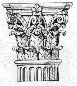 b/w line example of Corinthian